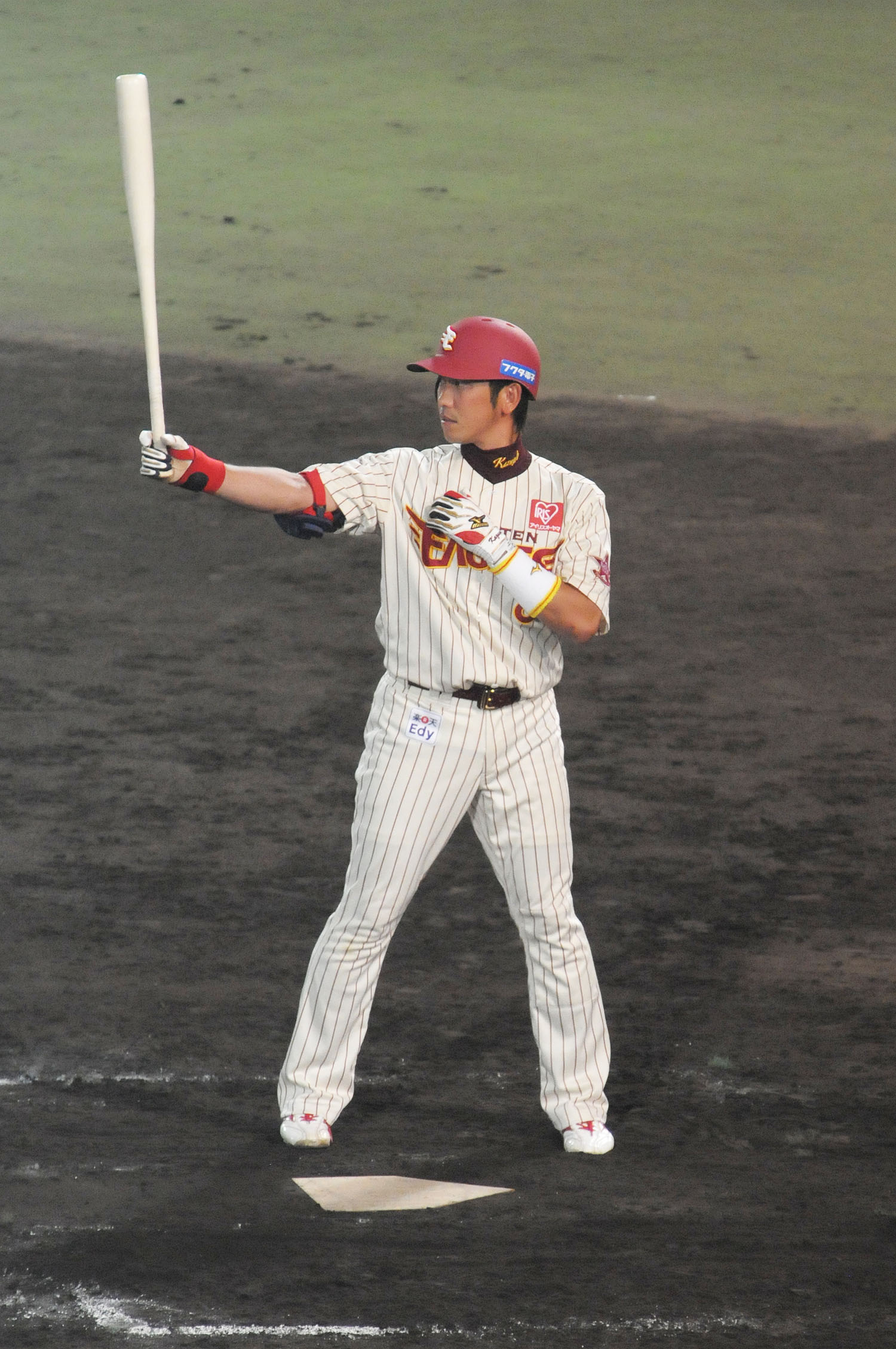 Kazuya Fujita, infielder of the Tohoku Rakuten Golden Eagles, at Akita Prefectural Baseball Stadium